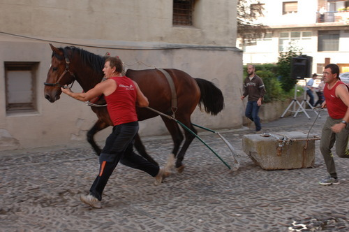 Dragging game with horse in Urnieta, 2008.